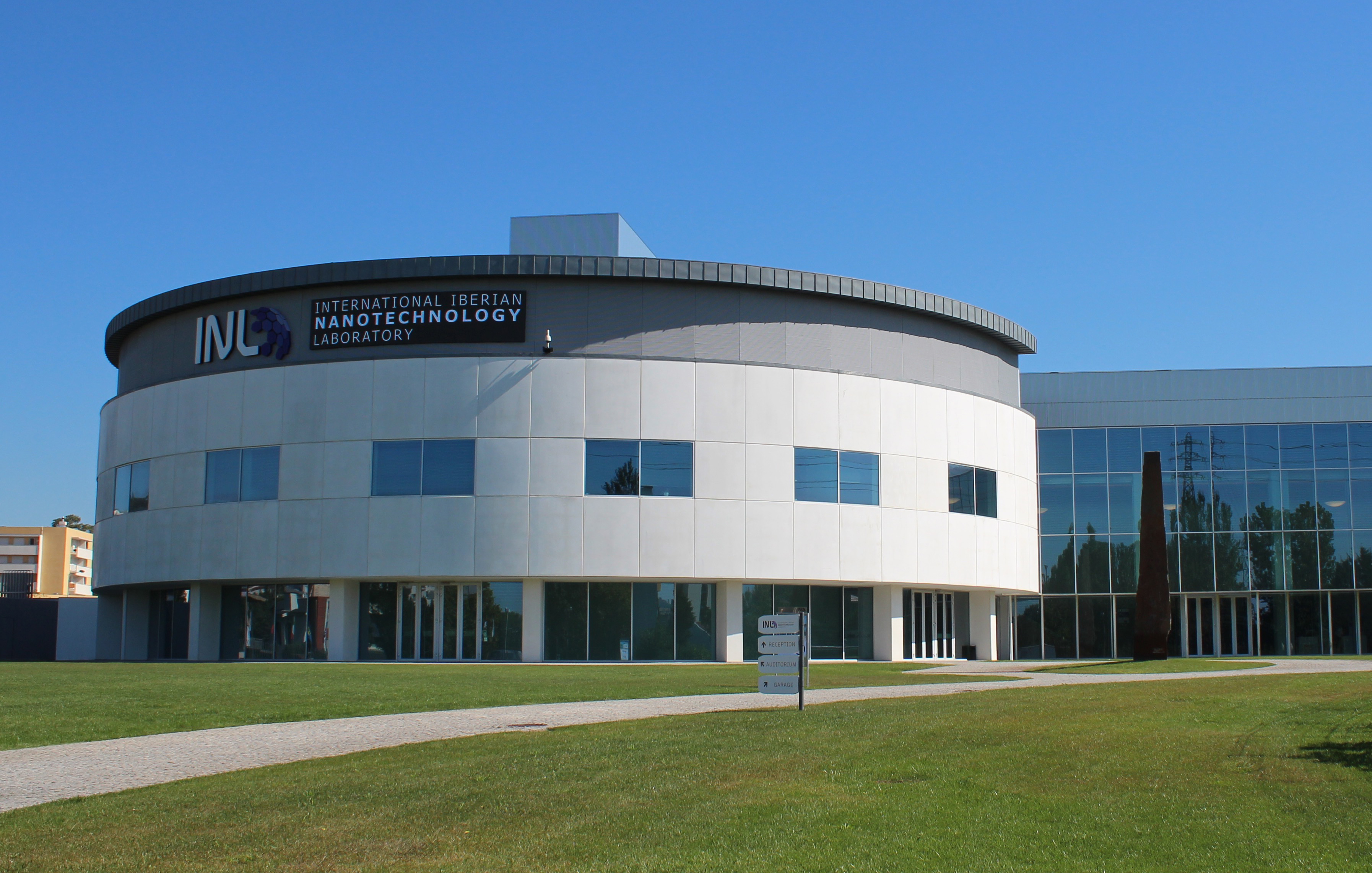 International Iberian Nanotechnology Laboratory front building